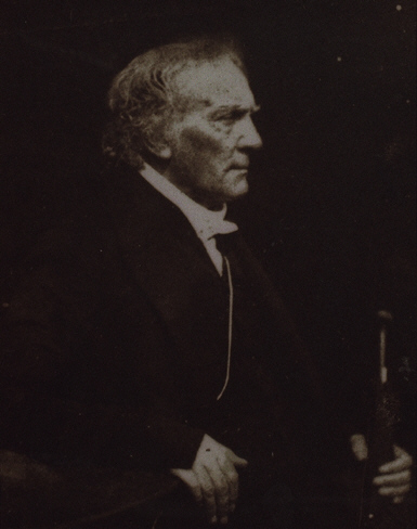 Thomas Chalmers (March 17, 1780 - May 31, 1847), Scottish mathematician and a leader of the Free Church of Scotland